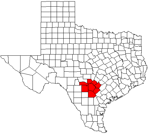 Map of Texas highlighting the San Antonio Metropolitan Statistical Area; created with the GIMP; made by User:Acntx.